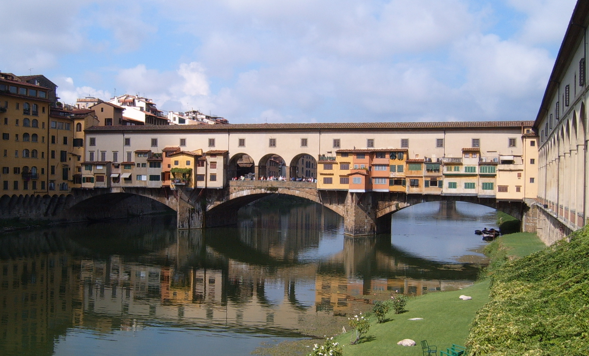 Ponte Vecchio, Florence (Italy)